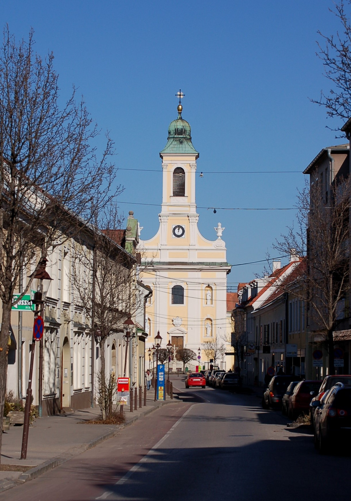 Church St. Leopold (a.k.a. Vorstadtkirche) at Wiener Straße, Wiener Neustadt, Lower Austria